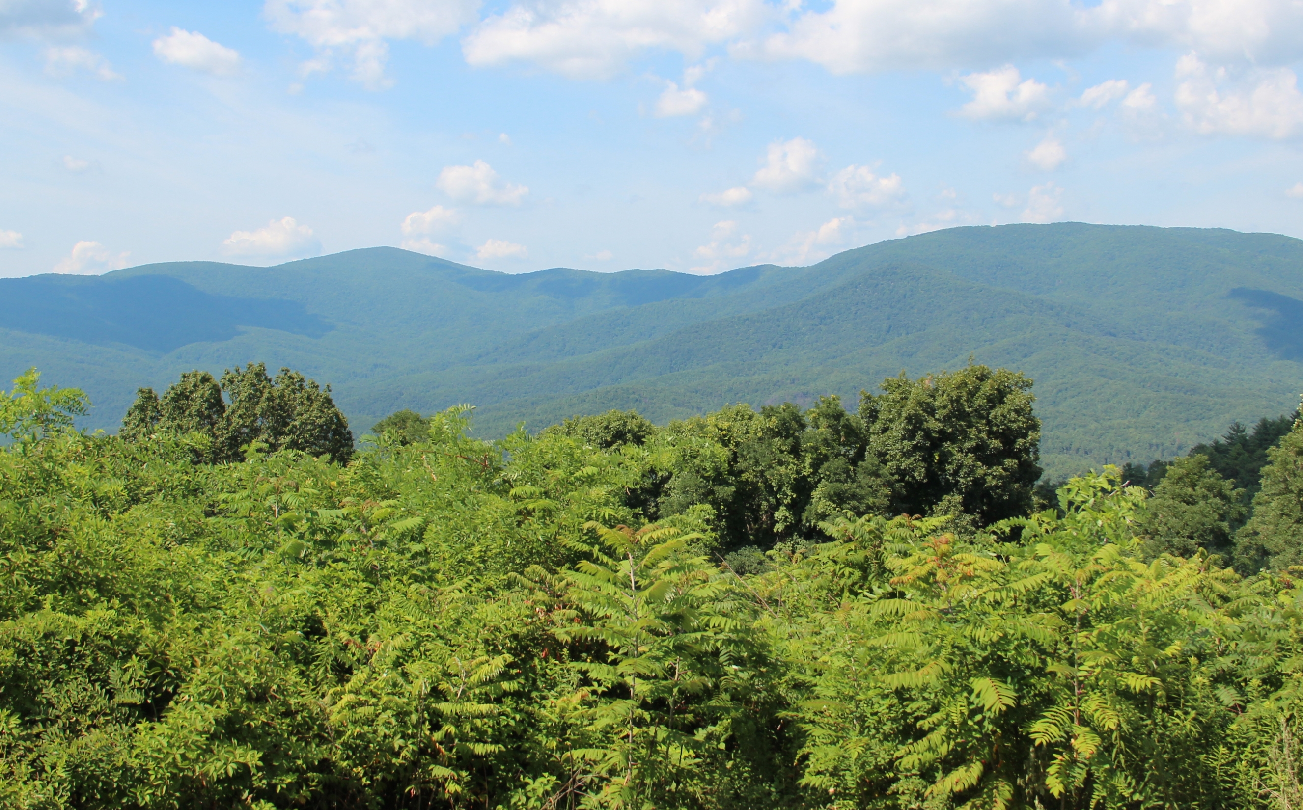 Cohutta Overlook, Murray County, Georgia